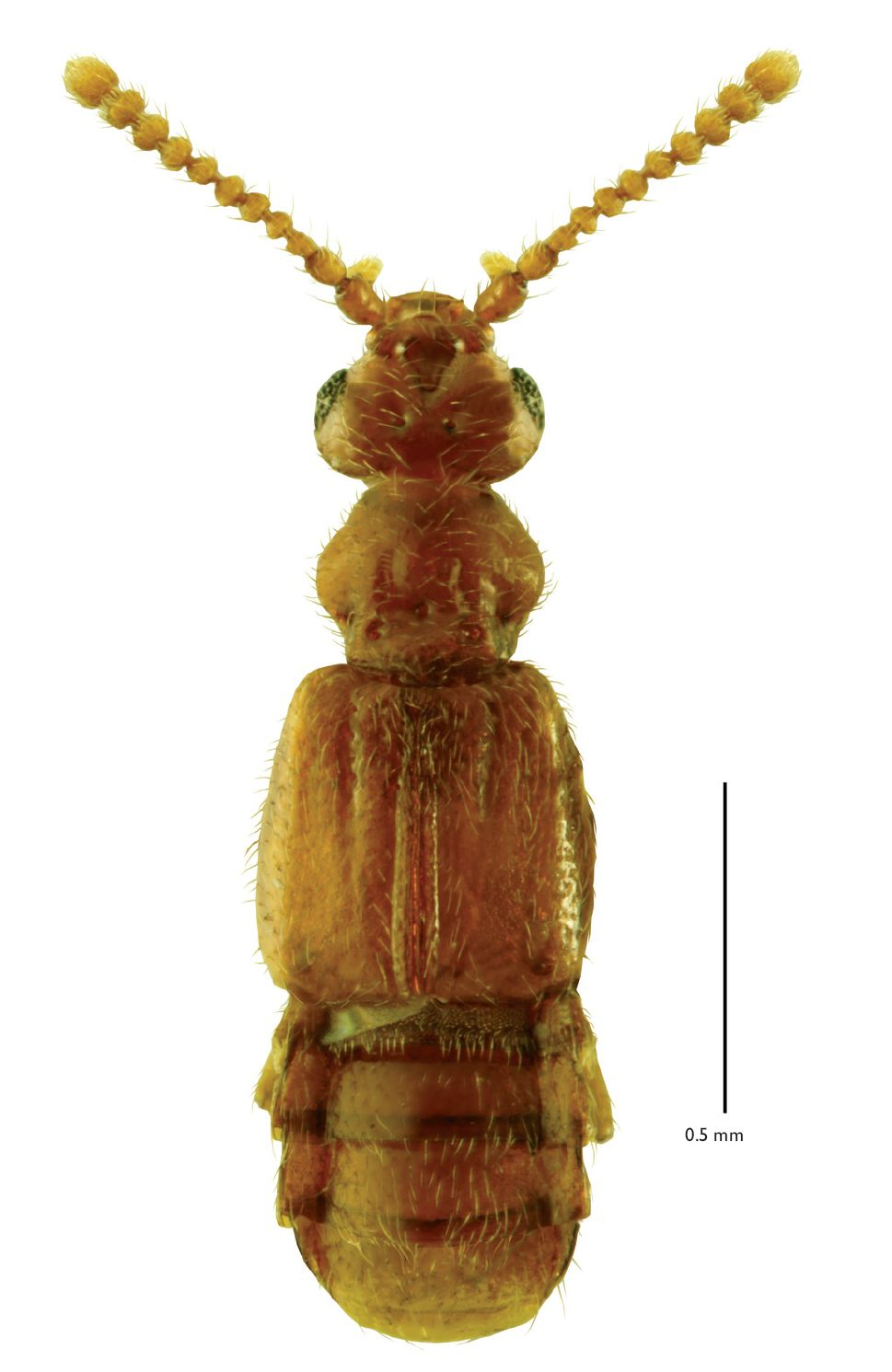 Dorsal view of Sonoma squamishorum (apical part of abdomen removed).